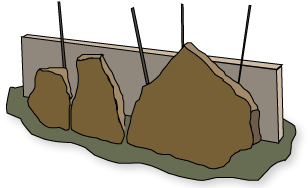 Author: Oliver Swann, original artwork for